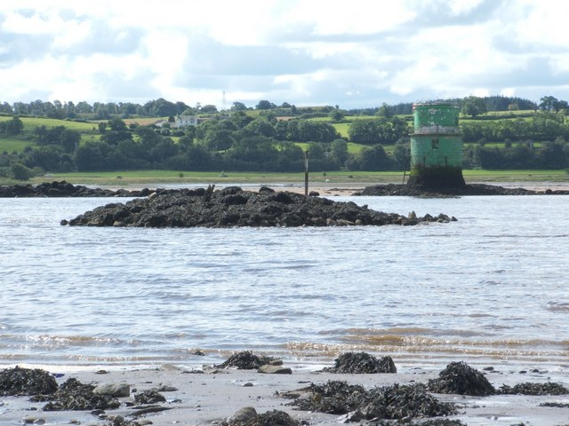 Dumbuck Perch The tiny islet nearest the shore is Dumbuck Perch; not more than 50m out, it was photographed here from close to the water's edge at low tide. In the background, almost due south from the islet, is the lighthouse shown on the Ordnance Survey map.